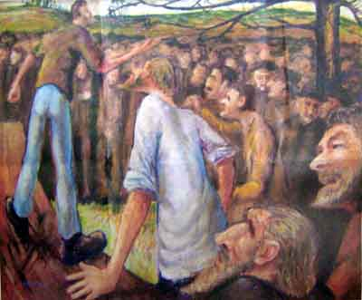 Peter Lalor Addressing the Miners Before Eureka by Peter Benjamin Graham, Oil on Canvass 1945, PGAF#006